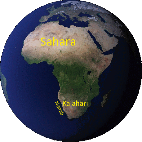 Deserts in Africa